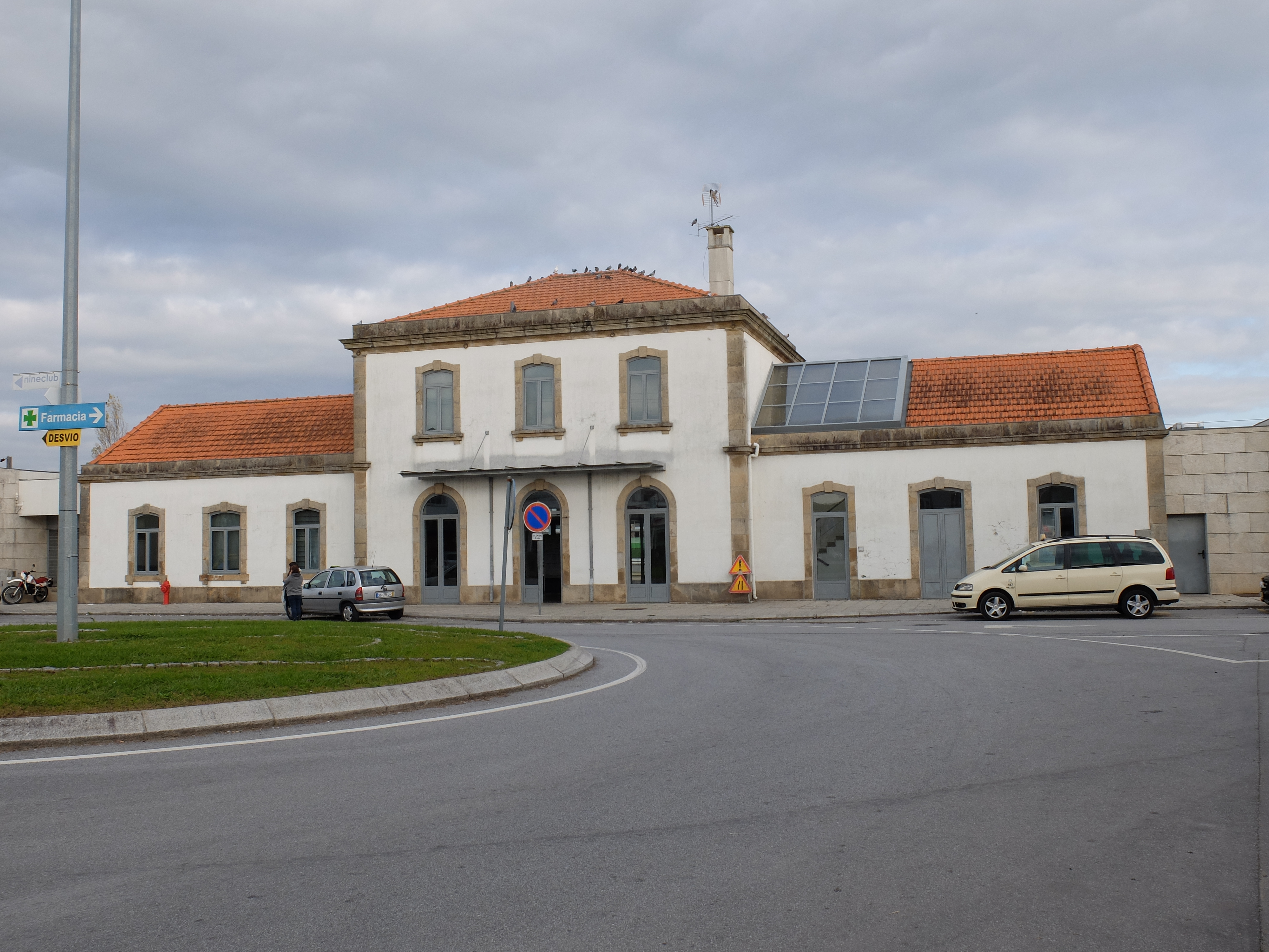 Nine train station